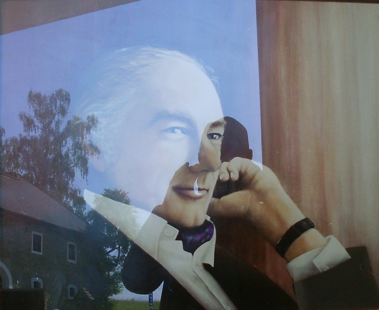 REFLECTION Thomas Bernhard Bernhard house (Obernatal Ohlsdorf) and photographer, taking the photo of a painting; Upper Austria Austria.